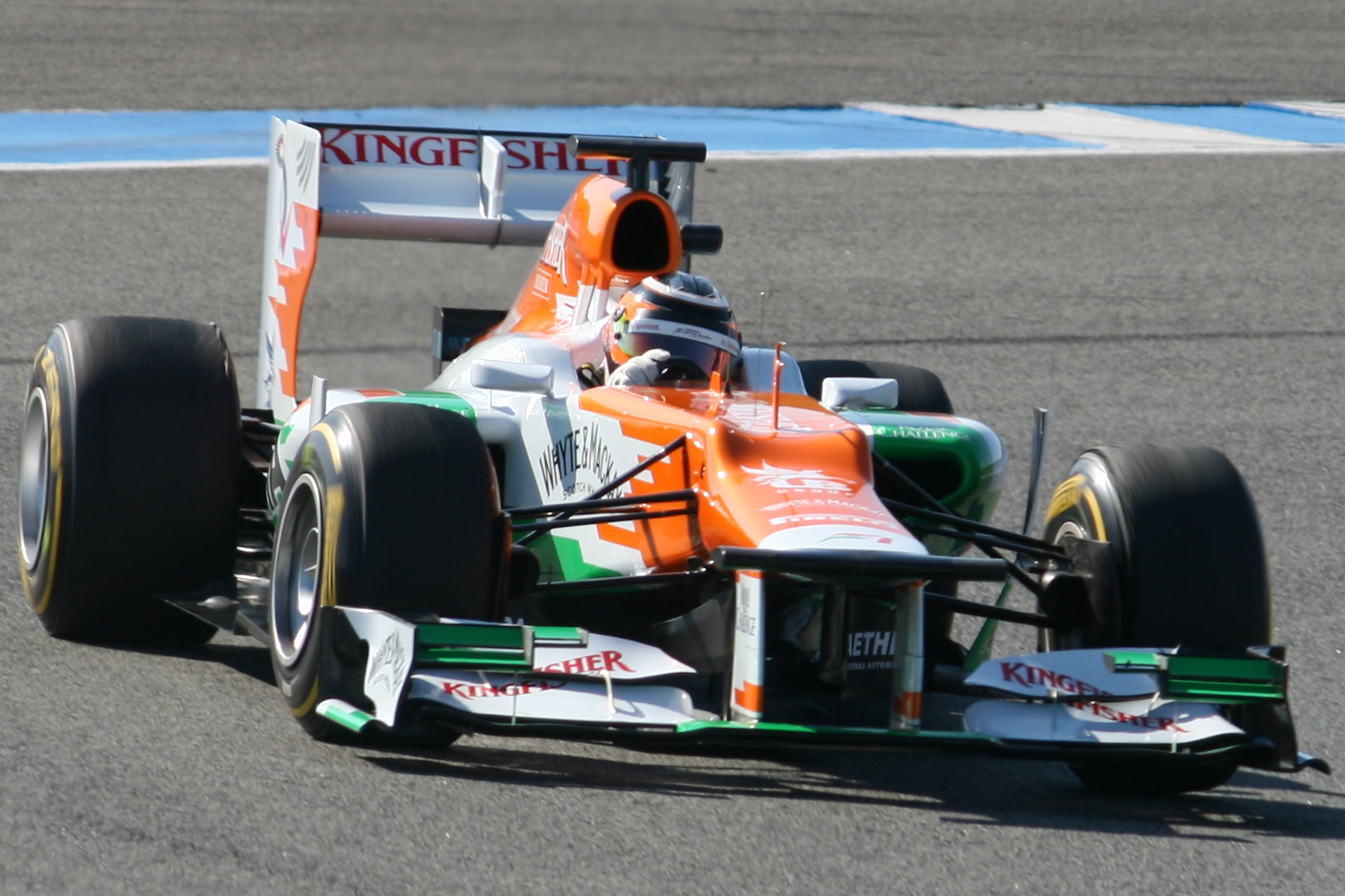 Nico Hülkenberg testing Force India VJM05 at Jerez, Spain